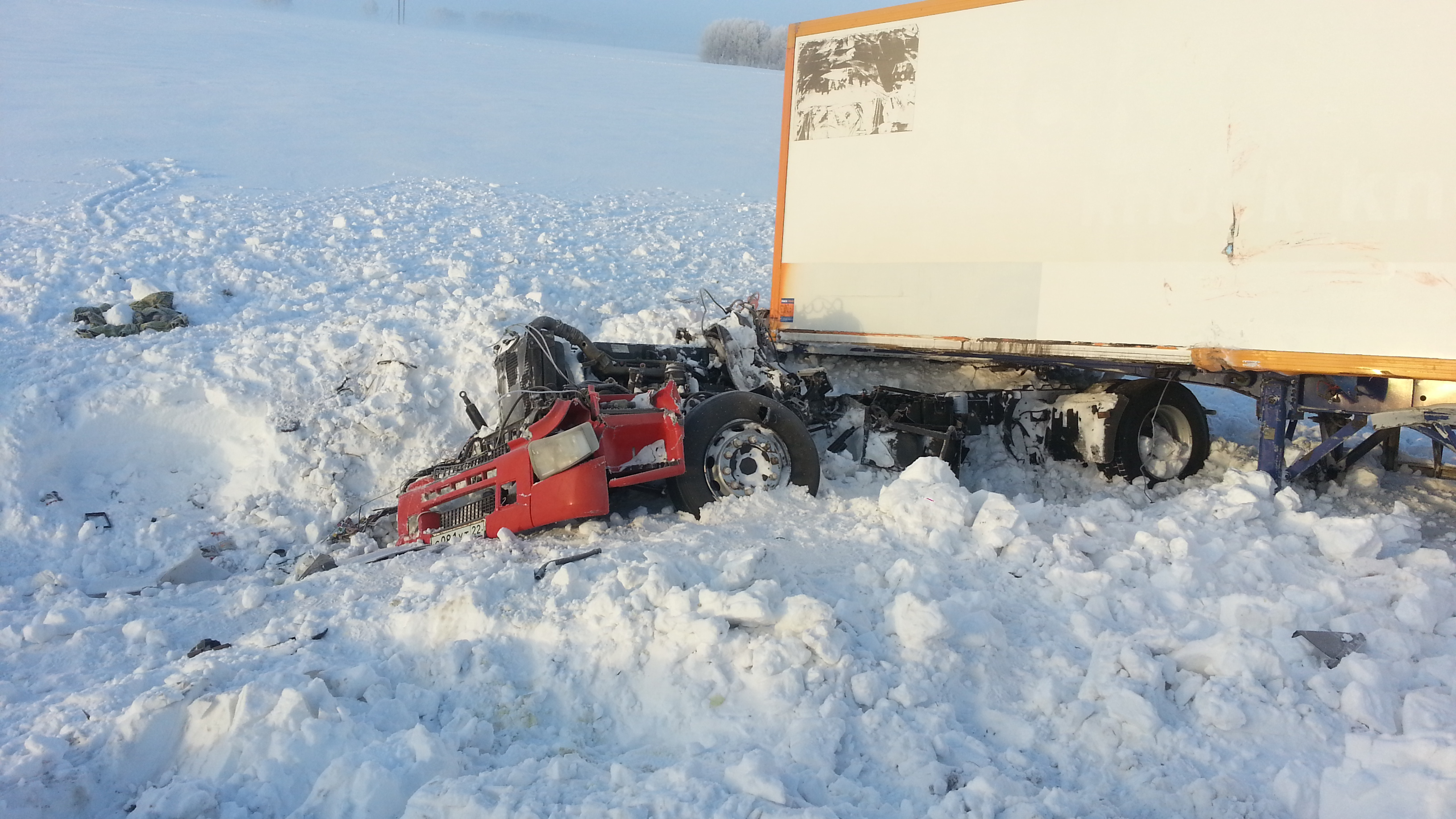 Truck crash at M52 road near Biysk (Russia)